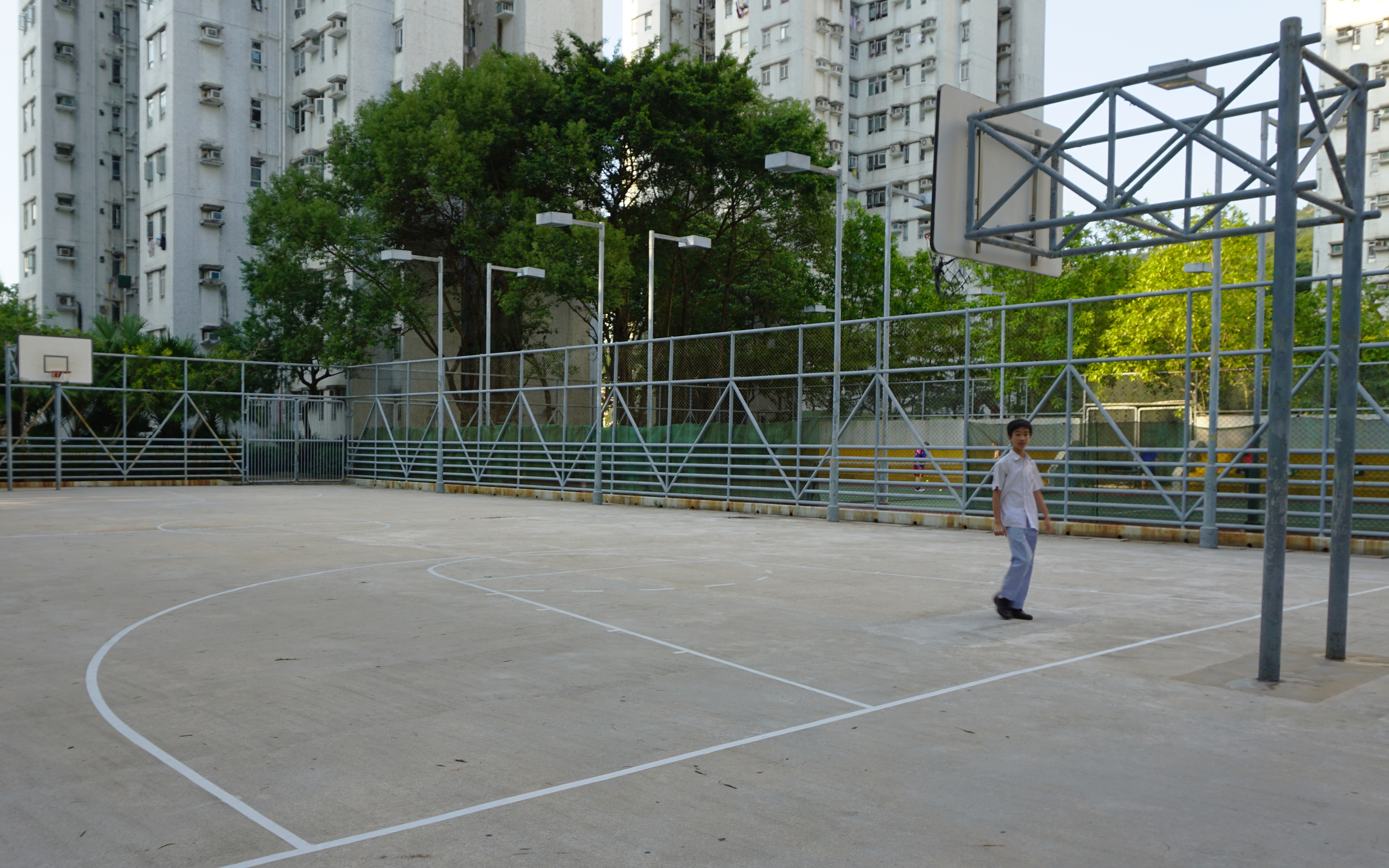 Chevalier Garden in Tai Shui Hang, Hong Kong.